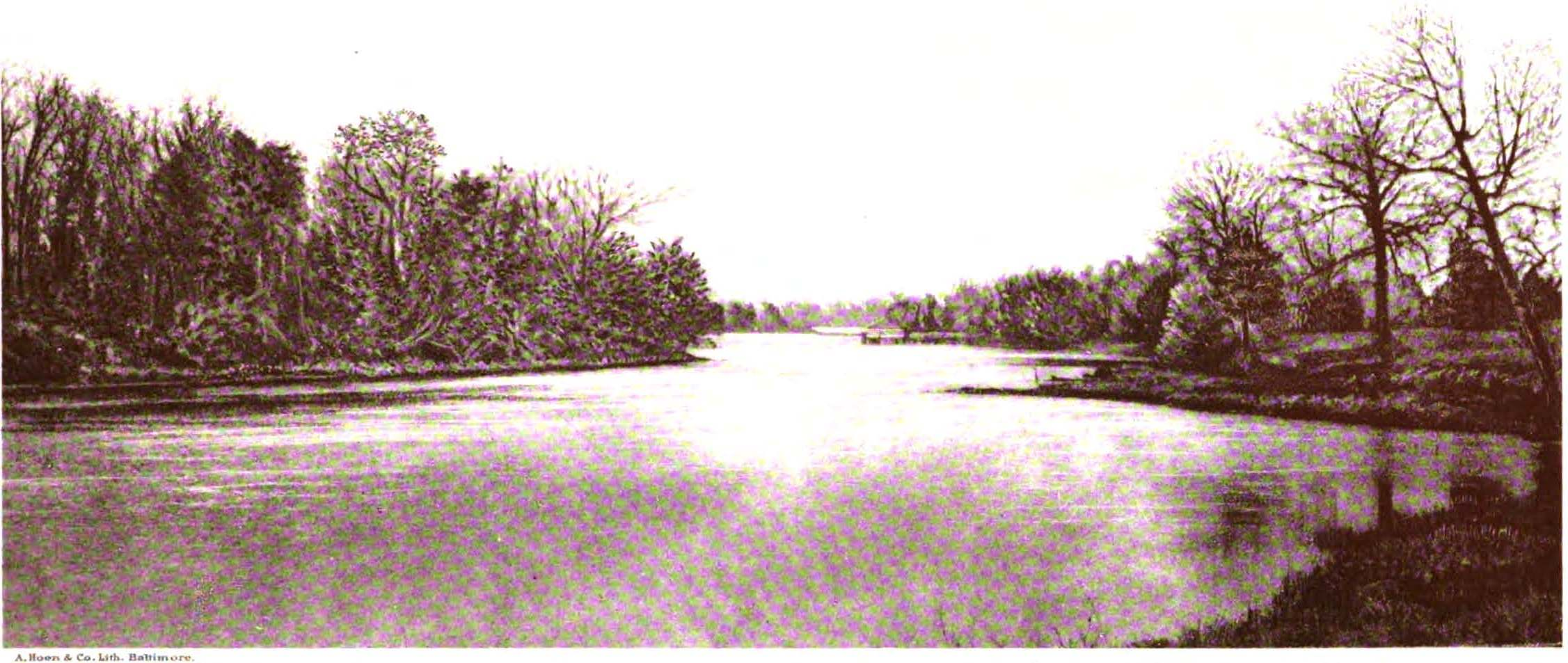 Plate VII of 1897 publication called Maryland Geological Survey Volume One, with caption "View showing estuary of the Chesapeake Bay, near Queenstown."